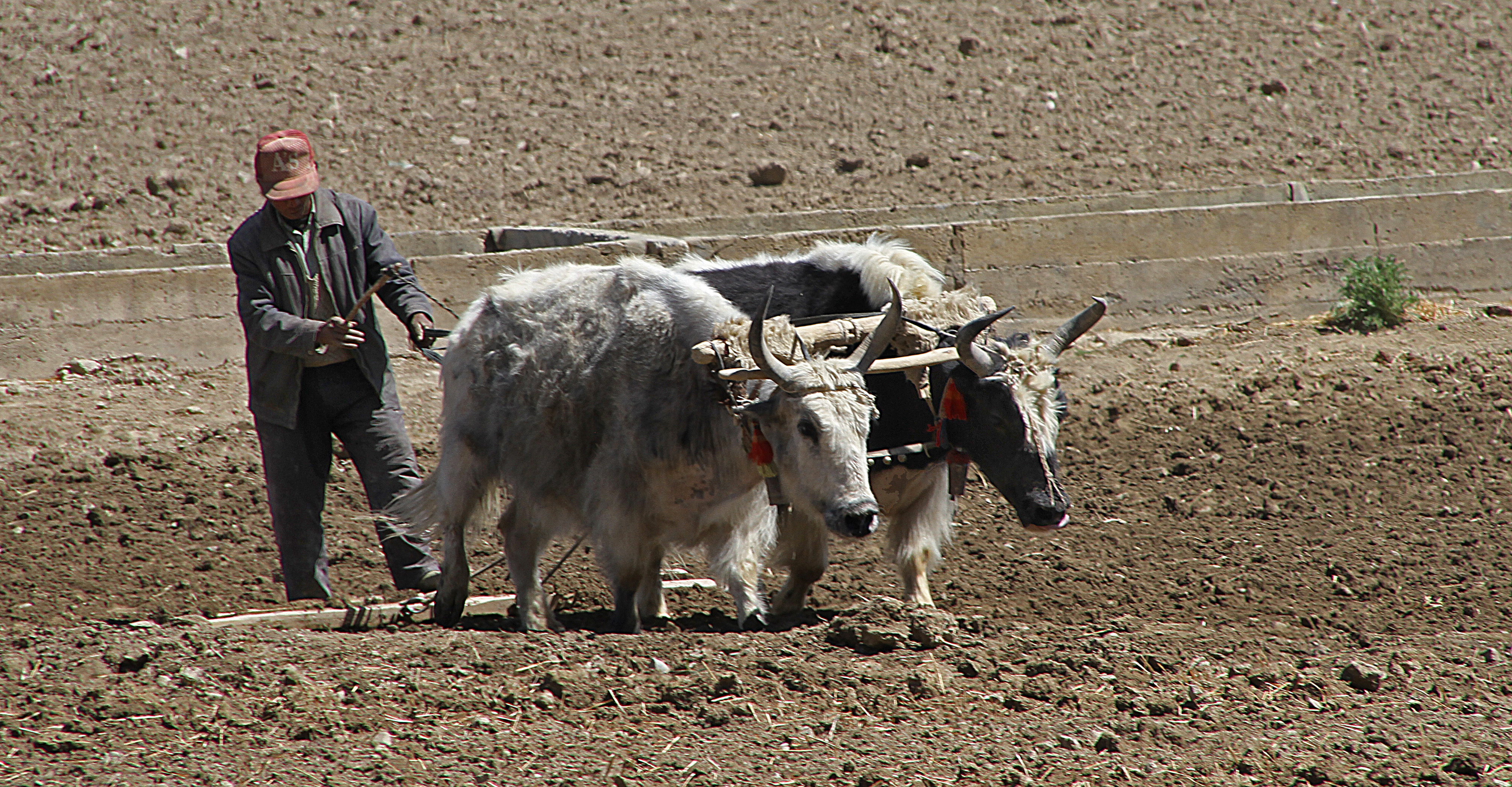 Agriculture in Xigazê prefecture in Tibet